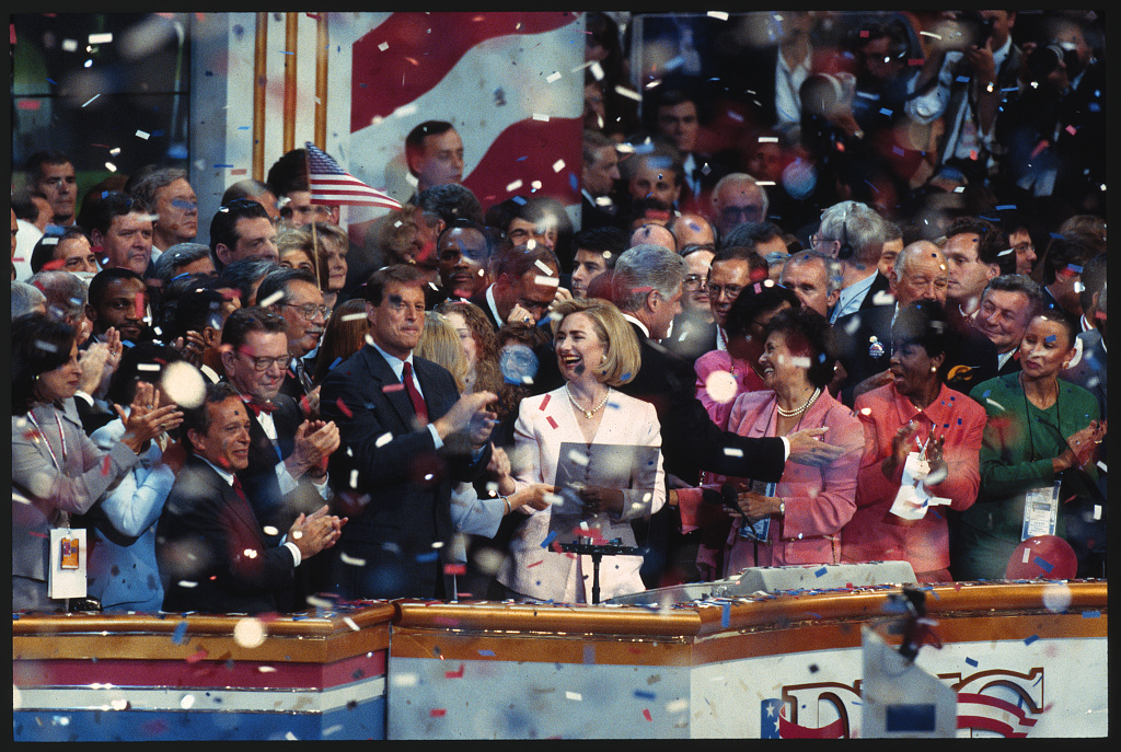 President Bill Clinton, Hillary Clinton, Vice President Al Gore, Senator Paul Simon and others on stage celebrating the nomination of Bill Clinton as the Democratic Party candidate for president, at the 1996 Democratic National Convention in Chicago